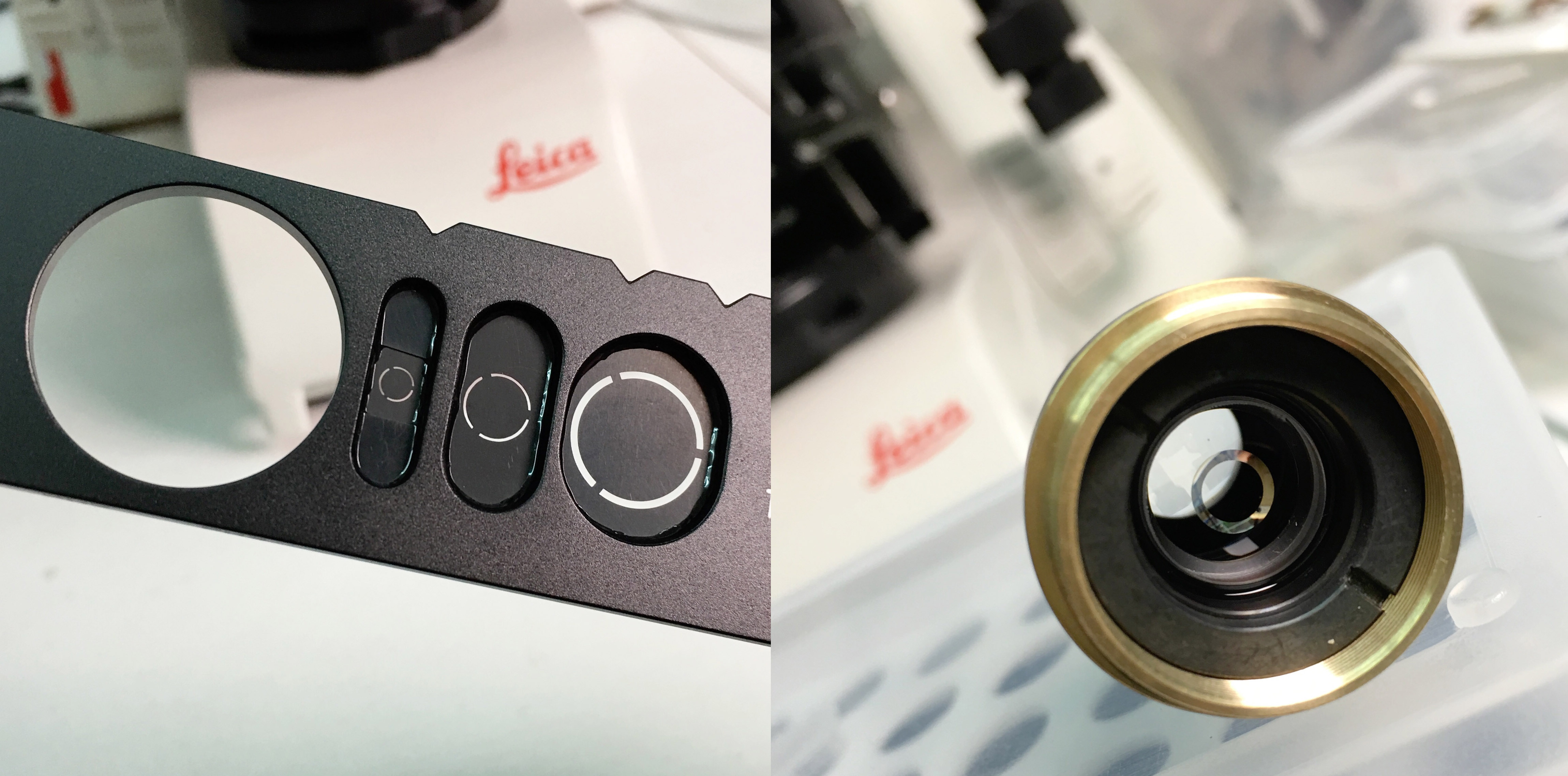 Leica phase annulus slider and HiPlan 10x/0.25 Ph1 objective